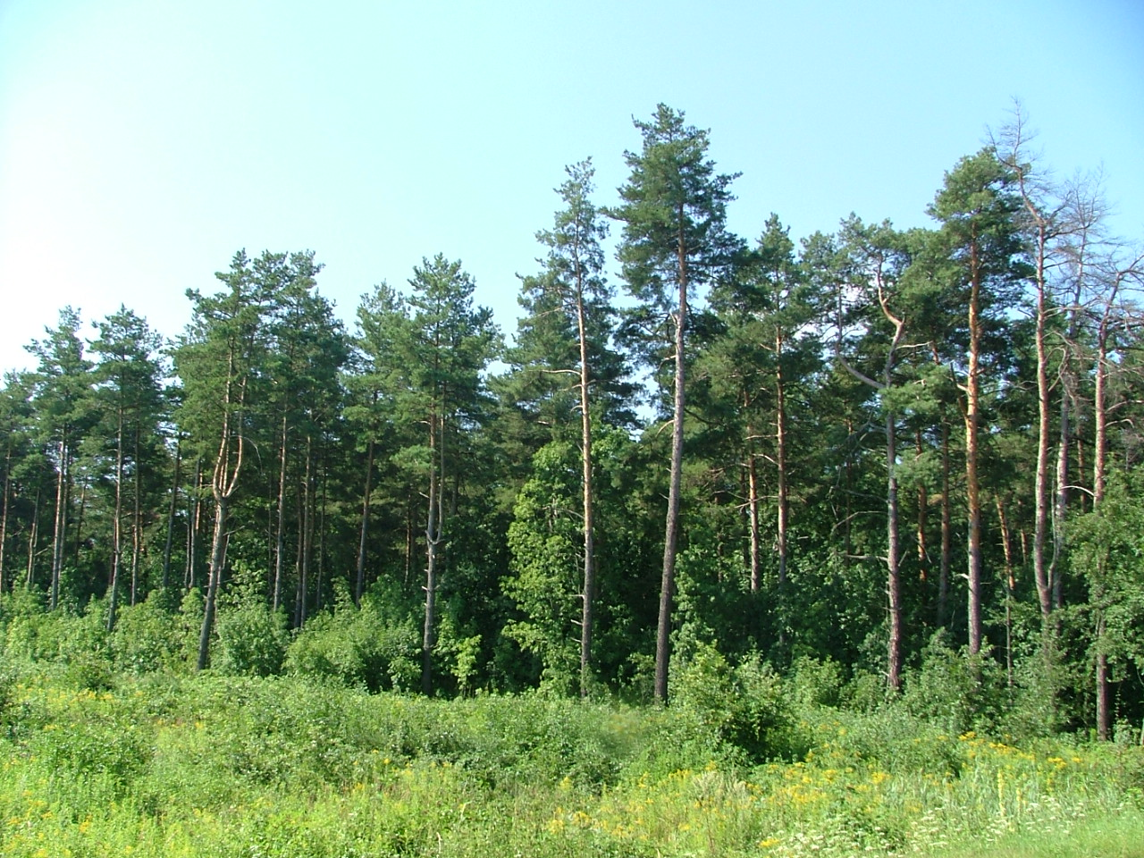 Fenyőfő, forest